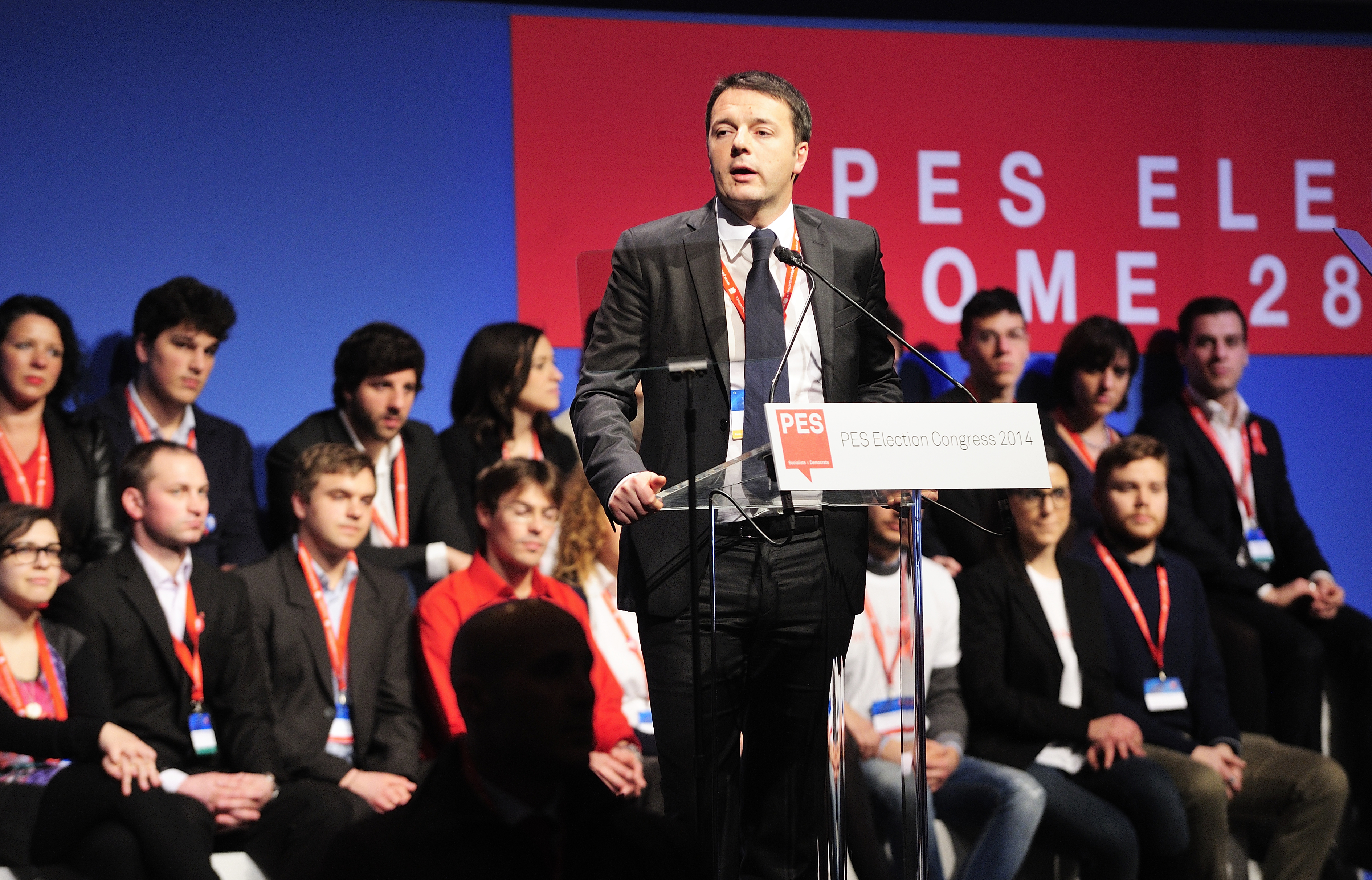 Party of European Socialists conference with Werner Faymann a Roma.